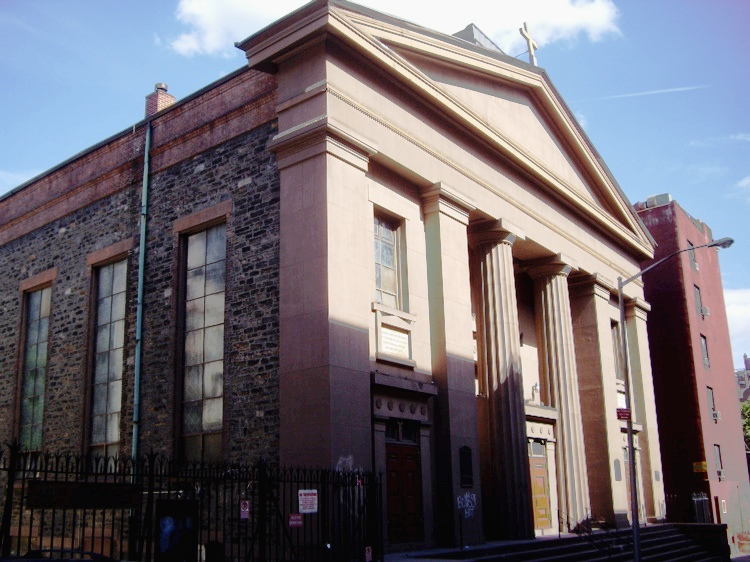 St. James' Church, New York City (James Street, Manhattan), ZIP 10038.